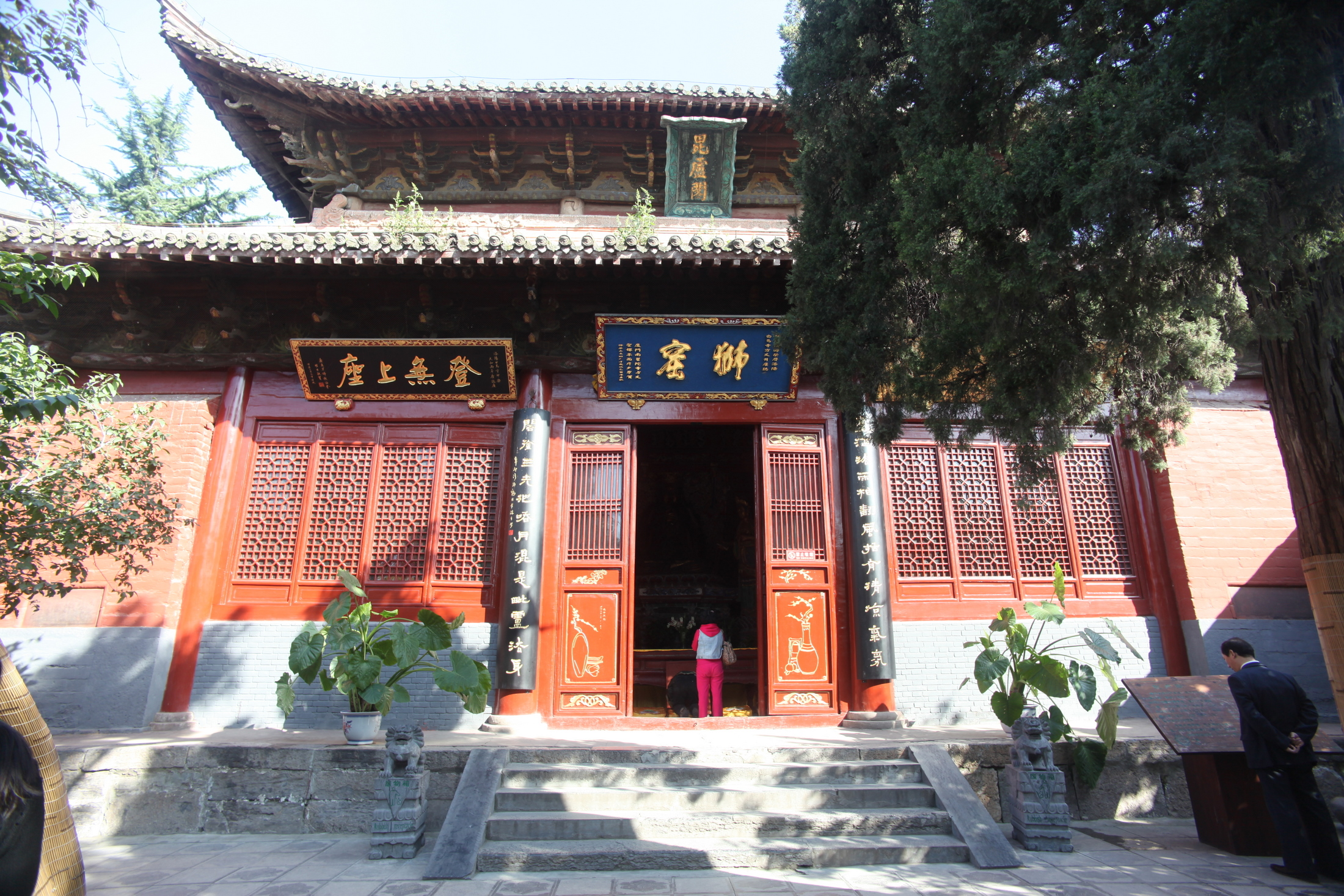 White Horse Temple Pilu Library